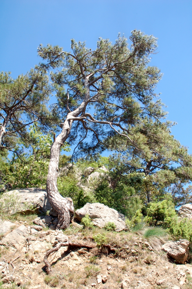 Cevennes Black Pine (Pinus nigra salzmannii), Foret Domaniale de Saint-Guilhem-le-Désert, route forestière du Pont d'Agre, Languedoc-Roussillon, France